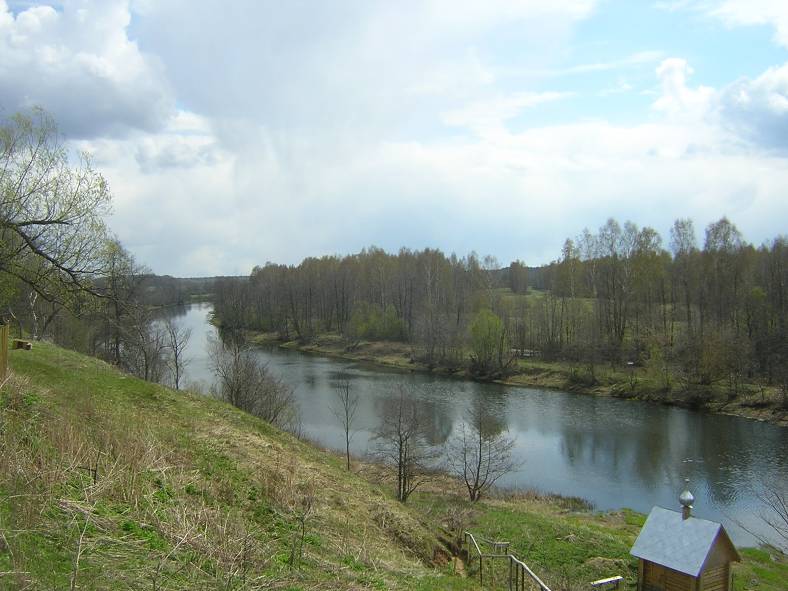 The Teza River near Sergeevo Village. Shuya District, Ivanovo Region, Russia. May 2007.